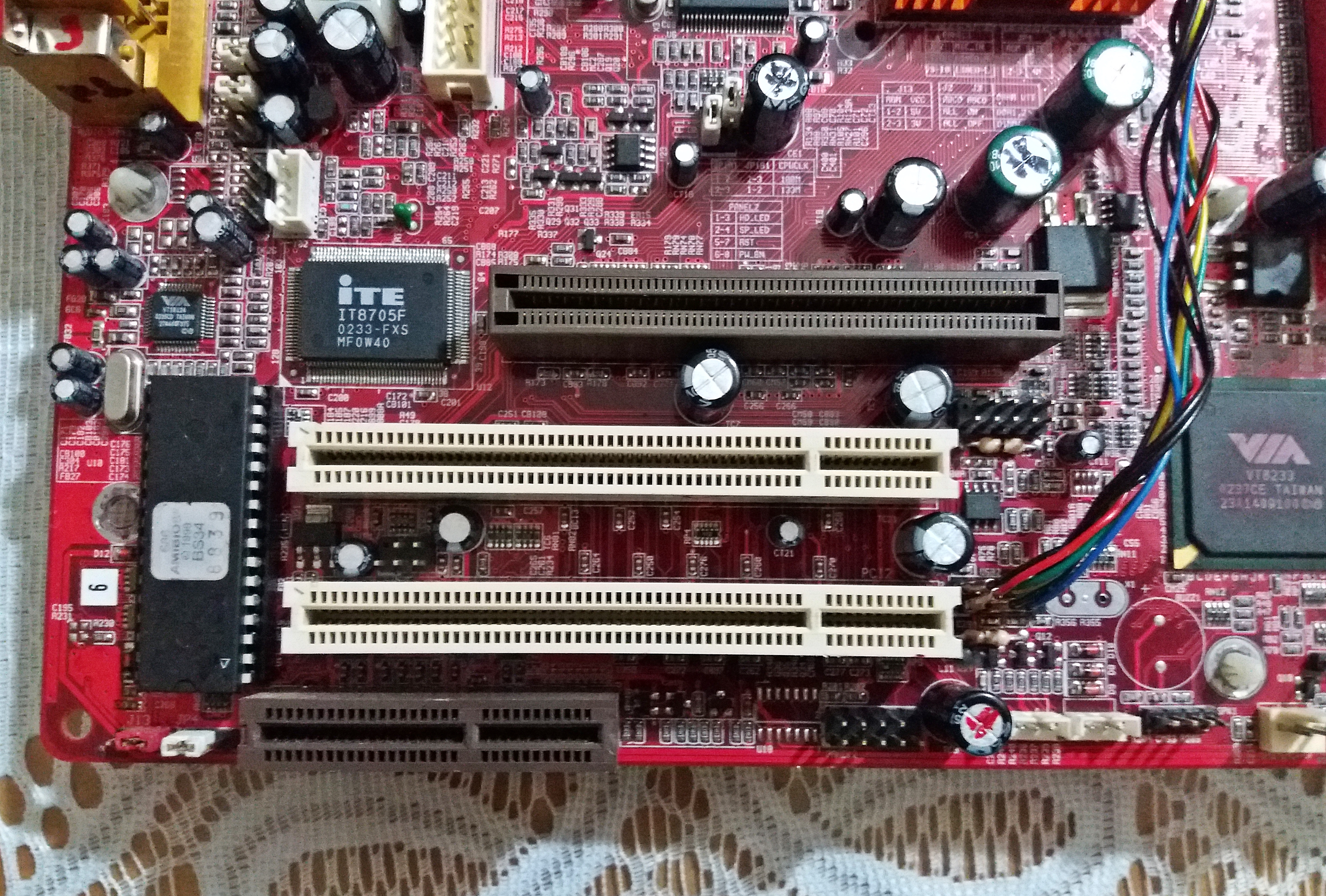 AGP, PCI Connectors in the PCChips M925LR Motherboard